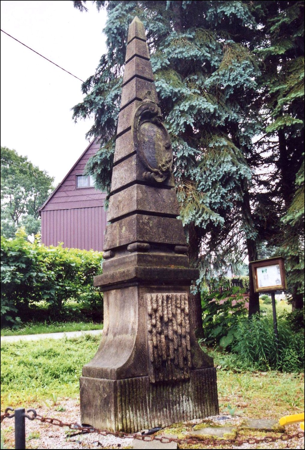 This image shows the memorial stone of George Bähr in Fürstenwalde in the Ore Mountains in Saxony, Germany. Bähr (1666-1738), born in Fürstenwalde, was the architect of the Church of Our Lady in Dresden.